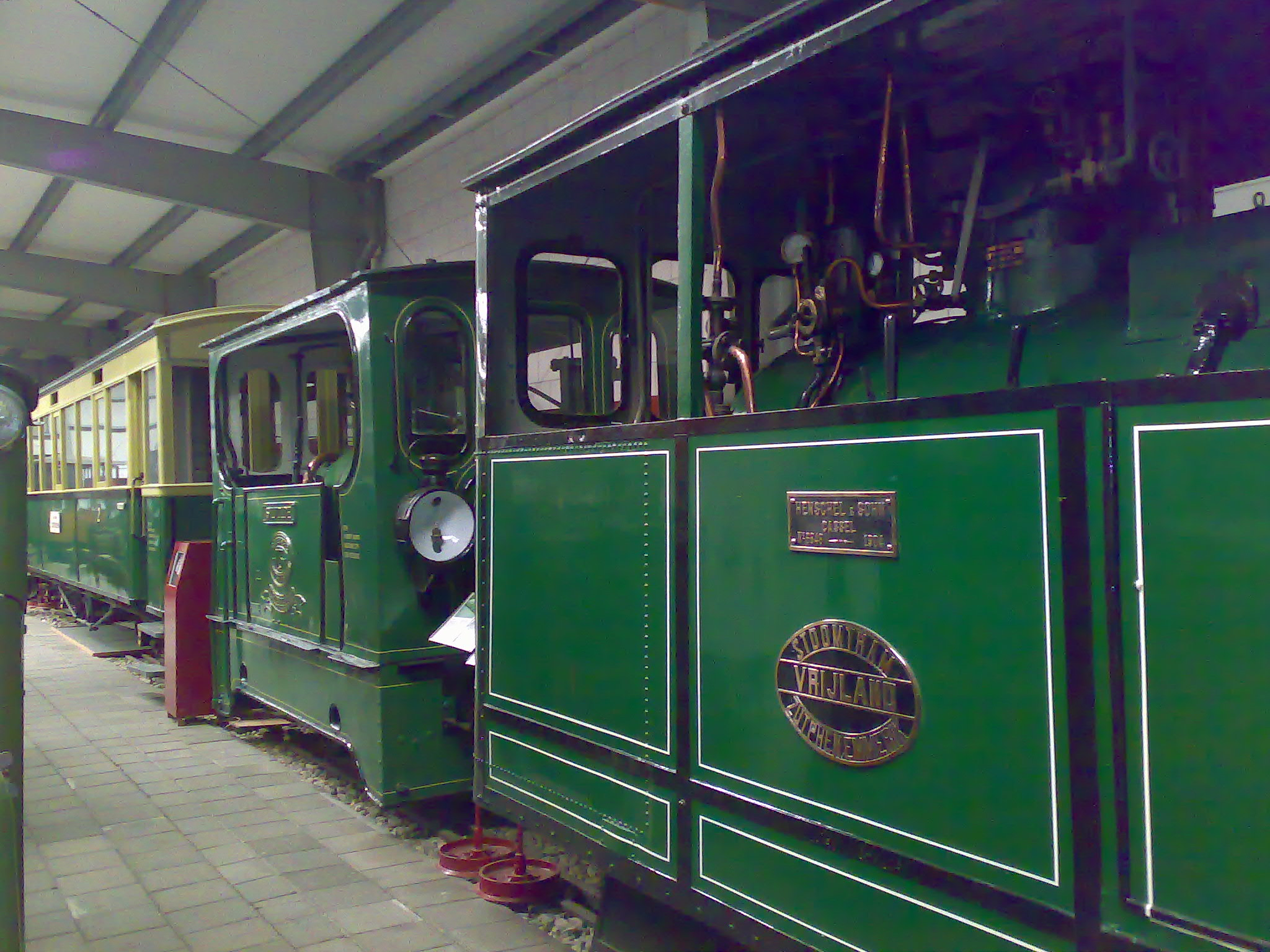 Steam tram locomotives Vrijland (front) and Silvolde (middle), and a passenger wagon (back) at the narrow gauge museum in Katwijk (NL)